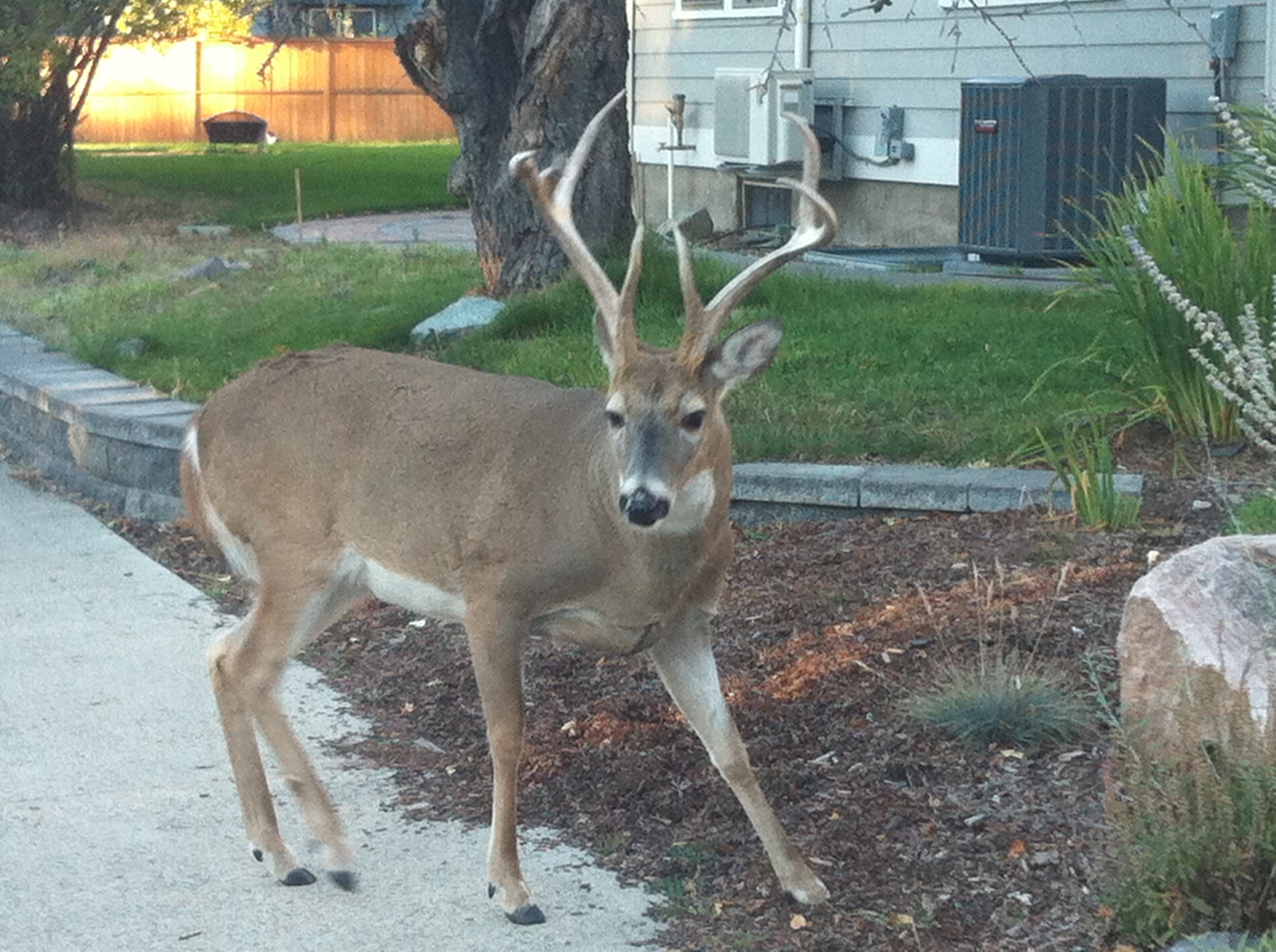 White-tailed Buck Deer, 4-pointer in Missoula, Montana.